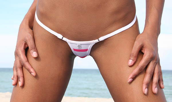 Microkini